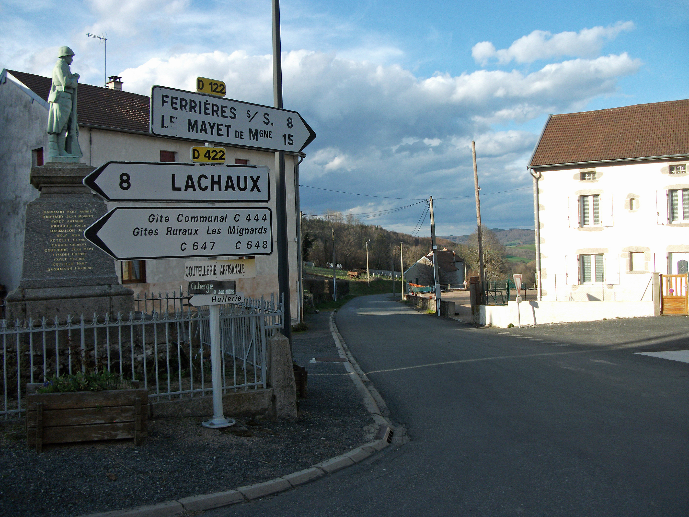 Departmental road 122 towards Ferrières-sur-Sichon, in La Guillermie, Allier [10573]